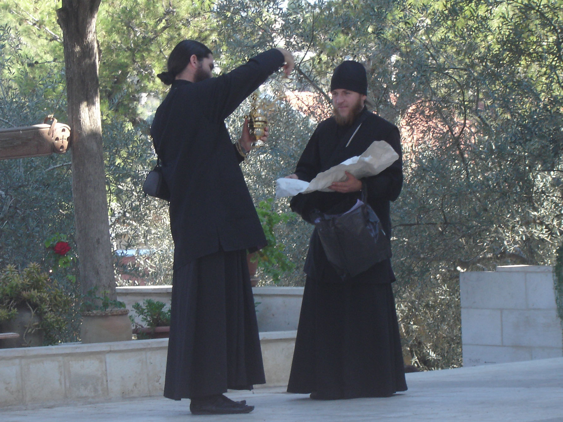 Two Russian Orthodox priests checking the merchandise they have just bought. Russian Monastery Gorney near Ein Karem, Jerusalem